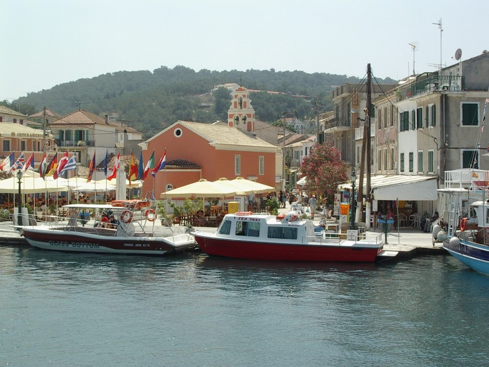 Description : Gaios, Paxos, Greece Author : Rémi Stosskopf